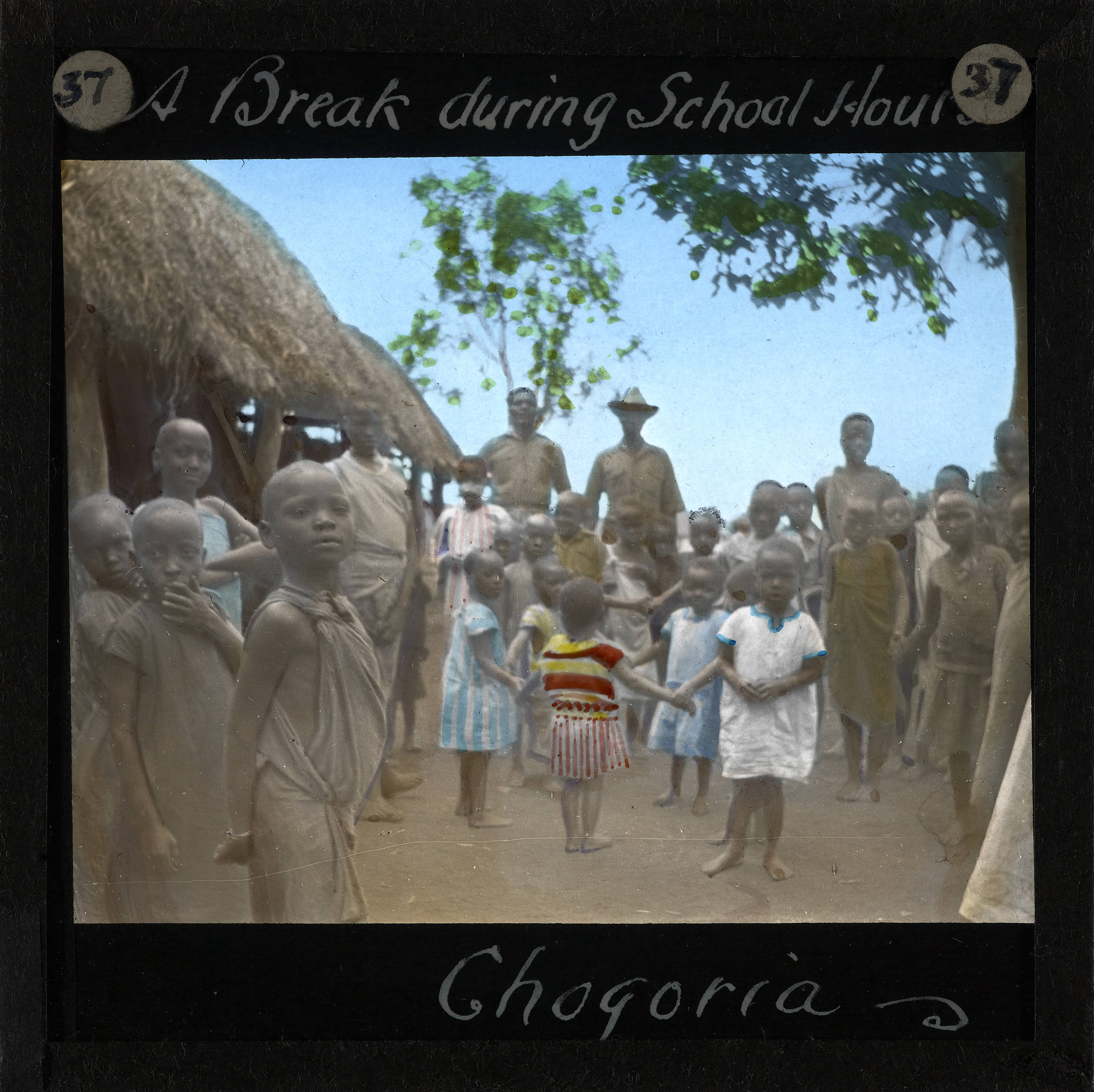 A Break During School Hours, Chogoria, Kenya, ca.1905-ca.1940 Photograph of a group of school children during a break in school hours at the mission station of Chogoria. A small group of infants can be seen in the centre of the group holding hands in a circle. Other children are gathered round and there are two adults standing in the background. The group is gathered outside a thatched hut.; This belongs to a series of Church of Scotland Foreign Missions Committee lantern slides relating to the Kikuyu Mission in Kenya, which was set up by Church of Scotland missionaries. Hospitals were established by Scottish missionaries in Kikuyu in 1908, in Tumutumu in 1909, and in Chogoria in 1922. The missionaries also introduced the Presbyterian Church to the area. The Kikuyu are Kenyaas most populous ethnic group. Photographer: Unknown Filename: imp-cswc-GB-237-CSWC47-LS7-037.tif Coverage date: 1905/1940 Part of collection: International Mission Photography Archive, ca.1860-ca.1960 Type: images Part of subcollection: Photographs from the Centre for the Study of World Christianity, University of Edinburgh, U.K., ca.1900-ca.1940s Repository name: Centre for the Study of World Christianity Archival file: impaunpub_Volume7/1644.url Repository address: The University of Edinburgh School of Divinity, New College, Mound Place, Edinburgh EH1 2LX, United Kingdom Geographic subject (country): Kenya Format (aacr2): 1 lantern slide : 8 x 8 cm. Geographic subject (continent): Africa Rights: Contact the repository for details. Part of series: Kenya Mission LS7 Repository Subject (lcsh Keyword): Children; Education; Play Date created: 1905/1940 Publisher (of the digital version): University of Southern California. Libraries Subject (aat genre): group portraits Format (aat): lantern slides Legacy record ID: impa-m68751 Access conditions: File: GB 237 CSWC47/LS7/37